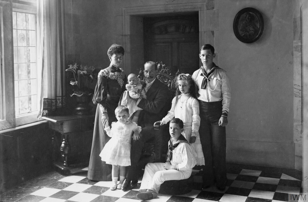 Germany Before the First World War 1890 - 1914 Portrait of Crown Prince Constantine and Crown Princess Sophie of Greece with their children, taken in Germany, 1902. Alexander, their second son and future King of Greece, is seated front right.